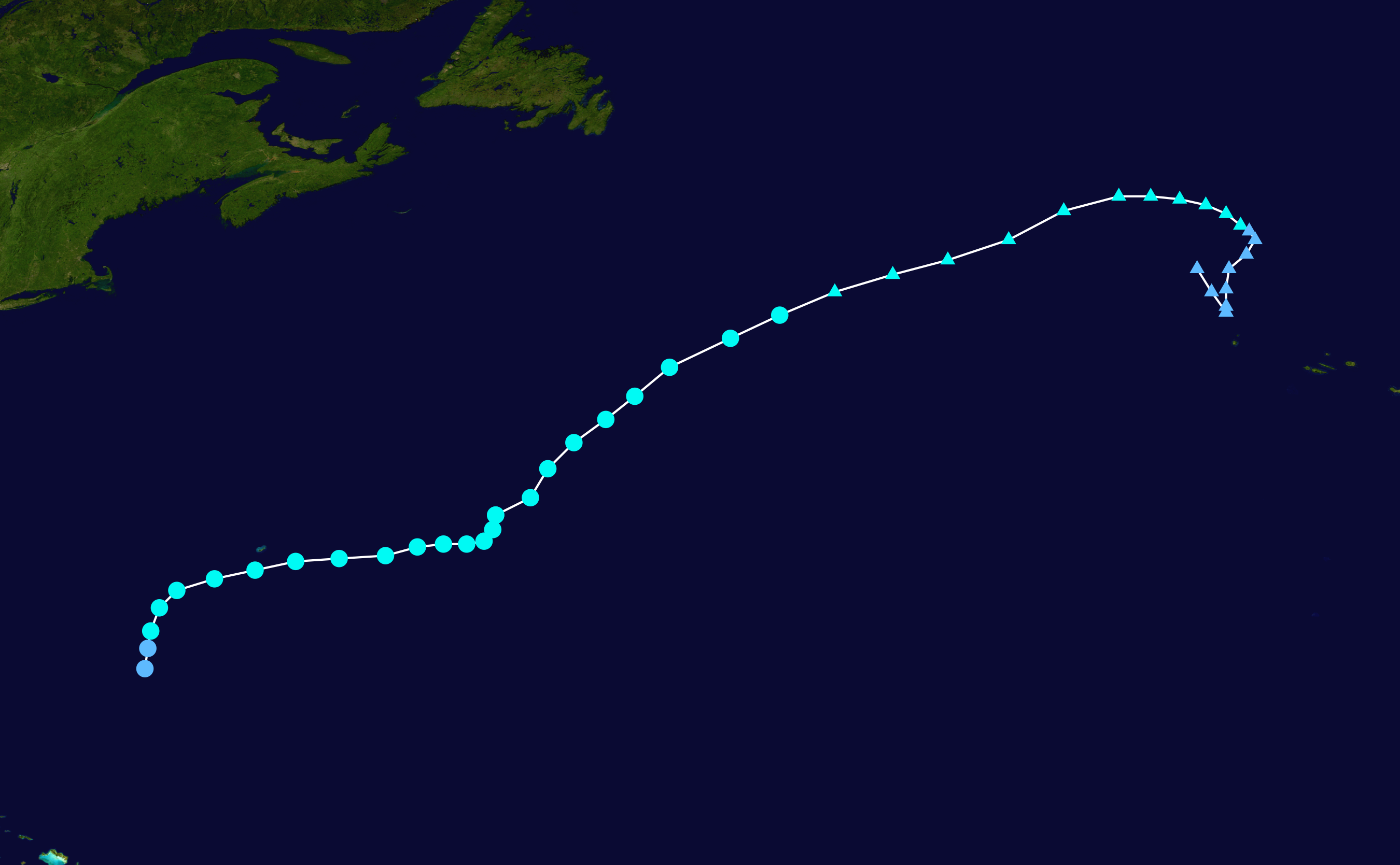 Track map of Tropical Storm Harvey of the 2005 Atlantic hurricane season. The points show the location of the storm at 6-hour intervals. The colour represents the storm's maximum sustained wind speeds as classified in the Saffir–Simpson scale (see below), and the shape of the data points represent the nature of the storm, according to the legend below. Saffir–Simpson scale Tropical depression≤38 mph≤62 km/h Category 3111–129 mph178–208 km/h Tropical storm39–73 mph63–118 km/h Category 4130–156 mph209–251 km/h Category 174–95 mph119–153 km/h Category 5≥157 mph≥252 km/h Category 296–110 mph154–177 km/h Unknown Storm type Tropical cyclone Subtropical cyclone Extratropical cyclone / Remnant low / Tropical disturbance / Monsoon depression